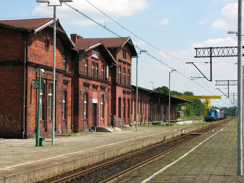 Chałupki PKP